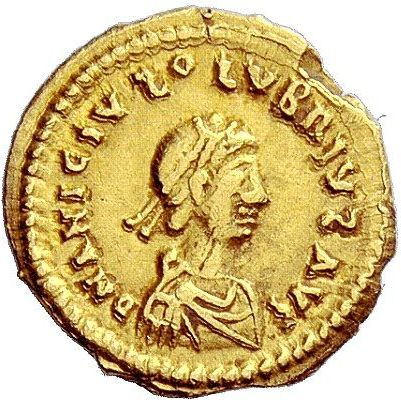 Olybrius, March (?) – 23 October 472, Tremissis, Mediolanum, AV 1.44 g. D N ANICIVS (S reverted) OLVBRIVS (S reverted) AVG Pearl-diademed, draped and cuirassed bust right. C 5. Ulrich-Bansa pl. XIII, 147 (these dies). Lacam 37 (these dies). LRC–. Depeyrot 33/1. RIC 3004.